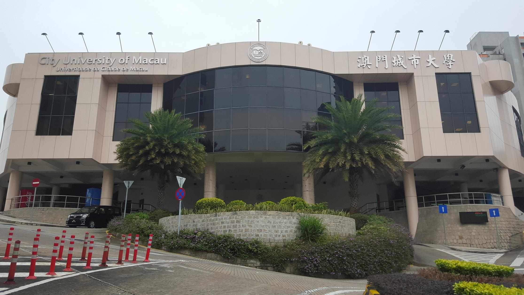 City University of Macau